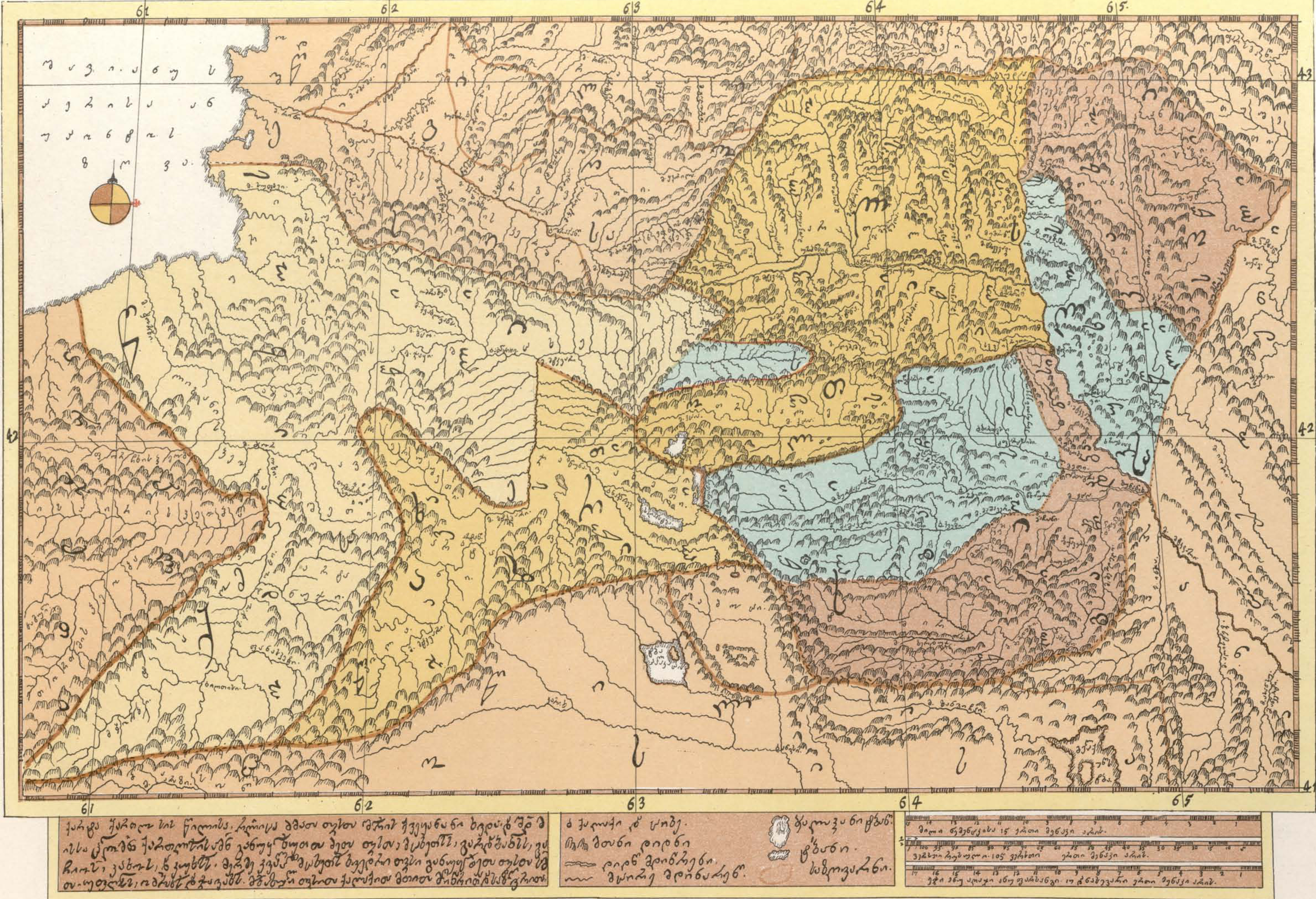 Map of Georgia by Prince Vakhushti Bagrationi